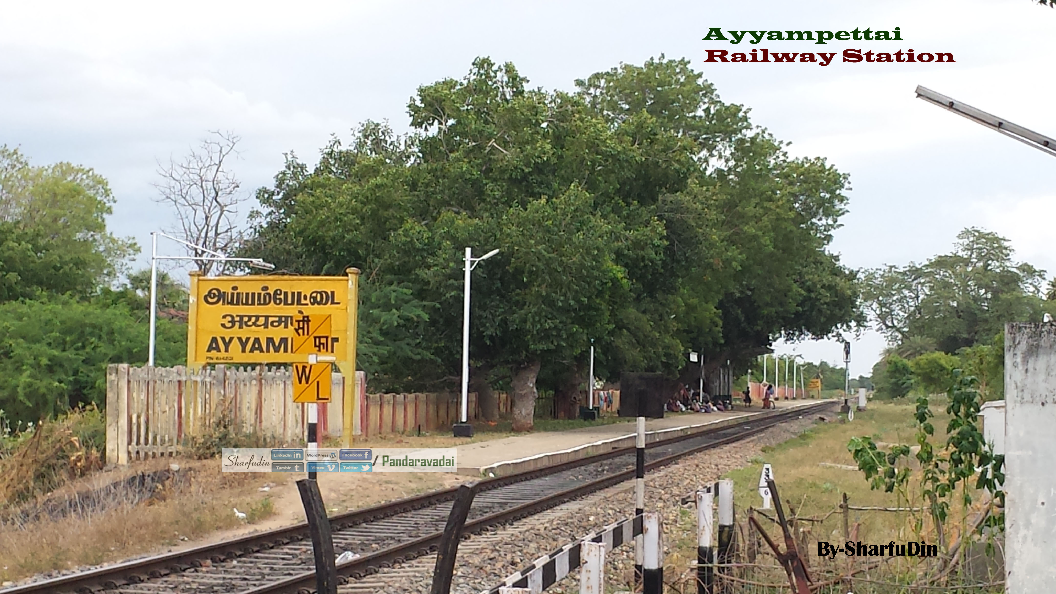 Ayyampettai Station By-SharfuDin